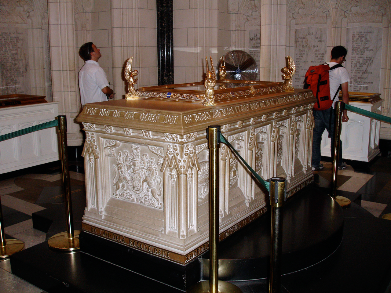 The altar, resting on steps of stone quarried from Belgium, is the focal point of the Memorial Chamber. Embedded in the floor around the Altar are brass nameplates identifying the major actions in which Canadians fought in the First World War: names like Vimy, Passchendaele, the Somme and Ypres. Location: Ottawa, Canada.